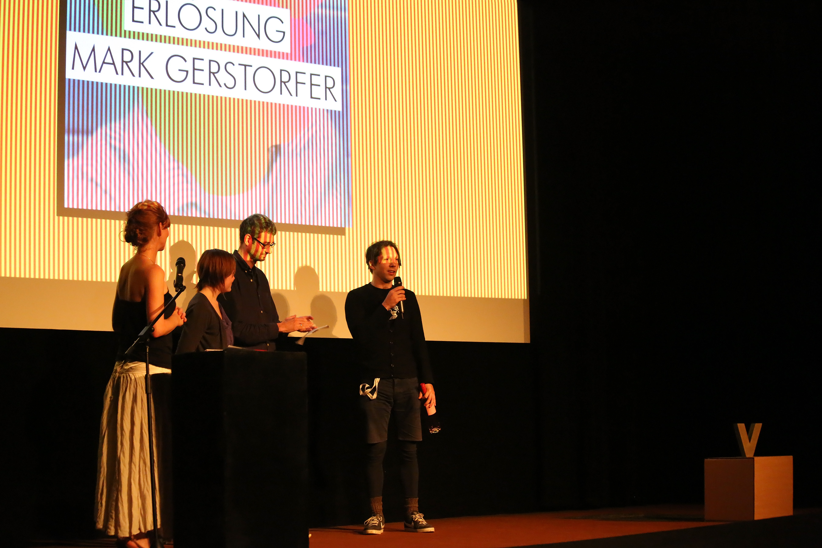 Filmmaker Mark Gerstorfer (Erlösung) at the film festival Vienna Independent Shorts 2014 at Stadtkino at Vienna Künstlerhaus (Vienna, Austria).